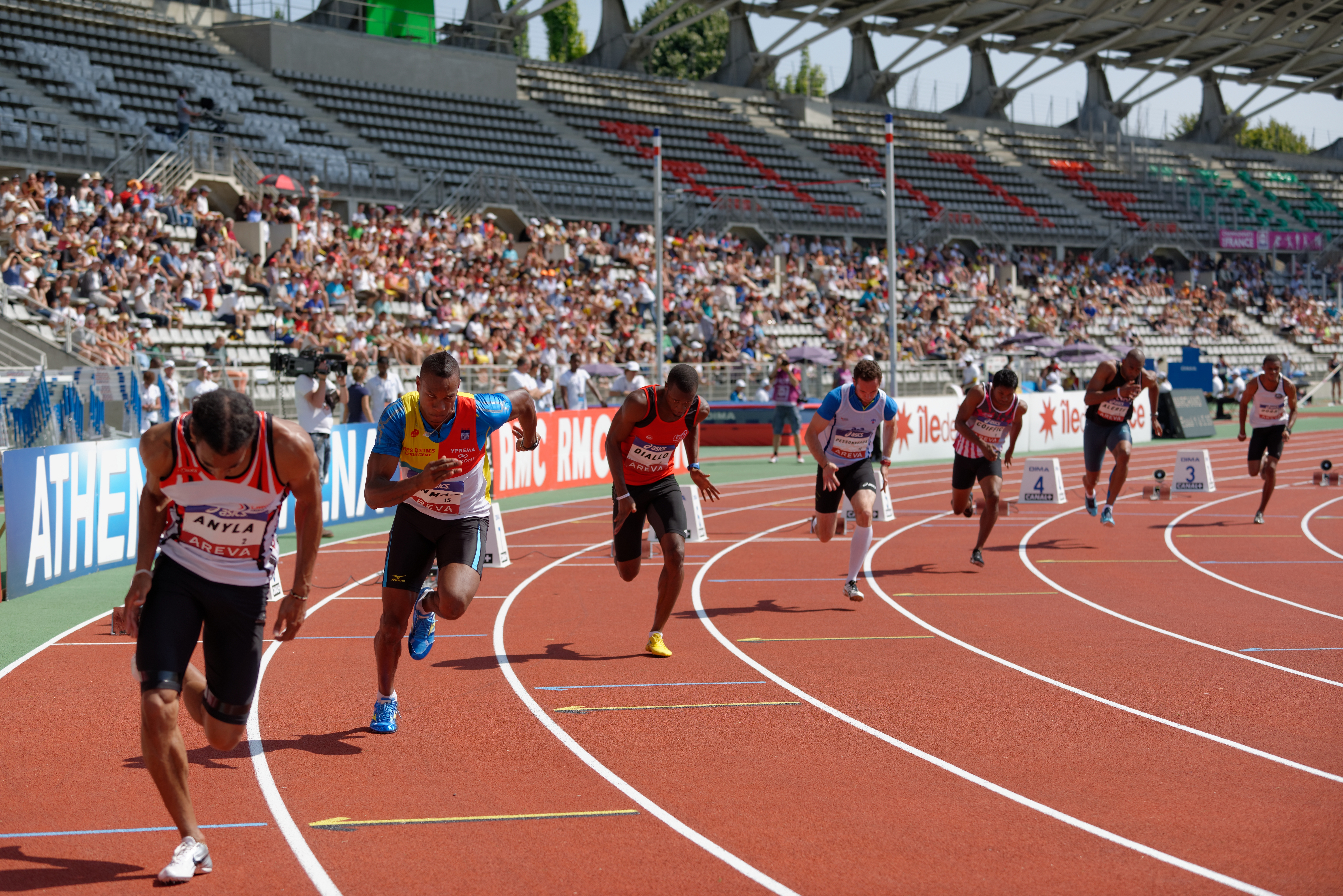 First series of the men's 200-metre race during the French Athletics Championships 2013 at Stade Charléty in Paris, 14 July 2013.